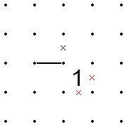 A partial Slitherlink game showing the knowledge learnt from a 1 adjacent to a line and a blank.